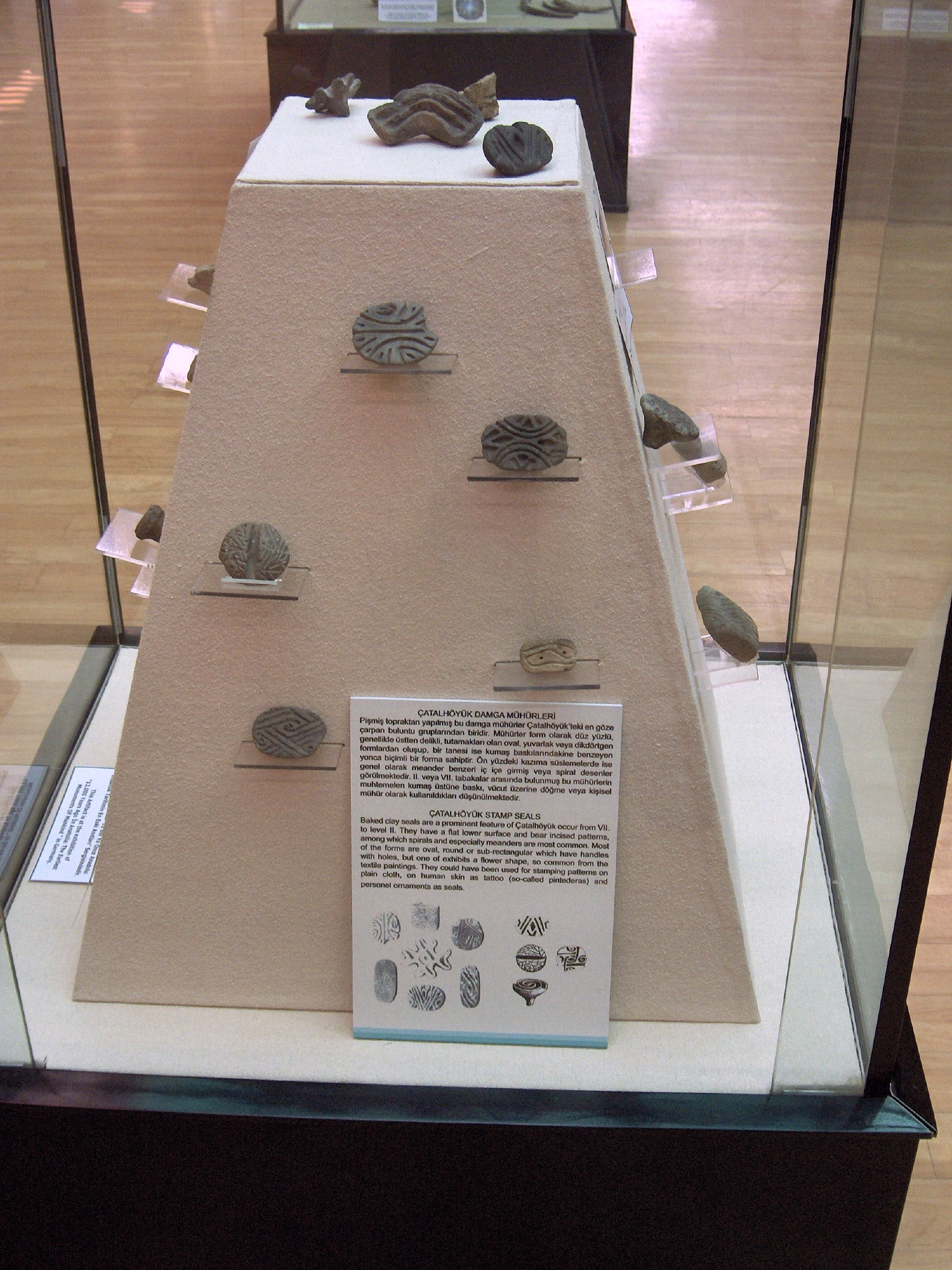 Baked clay stamp seals; found at Çatalhöyük; first half of 6th millennium BC; Museum of Anatolian Civilizations, Ankara, Turkey